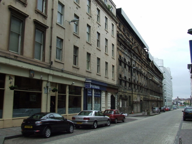 James Watt Street Looking towards the River Clyde from Argyle Street.